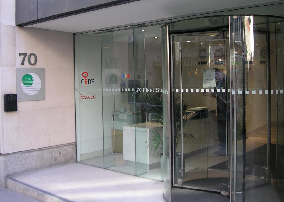 The London Court of International Arbitration, 70 Fleet Street, London